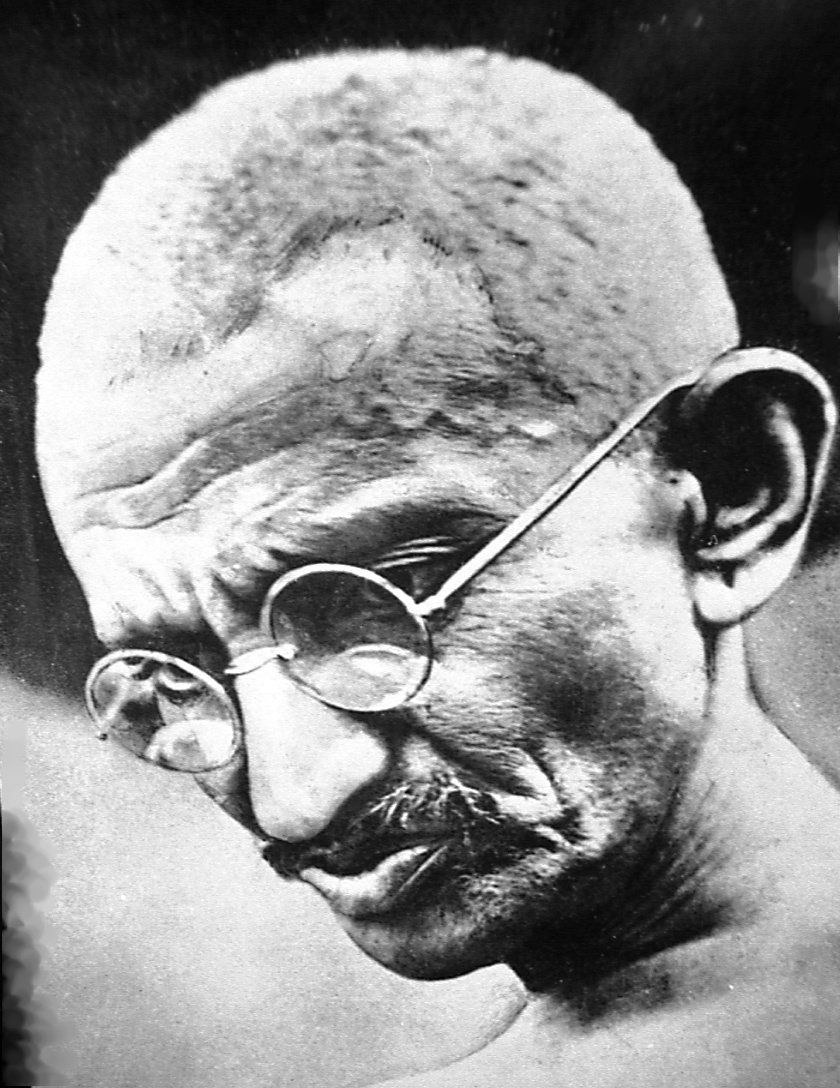 Portrait of Gandhi in 1931.